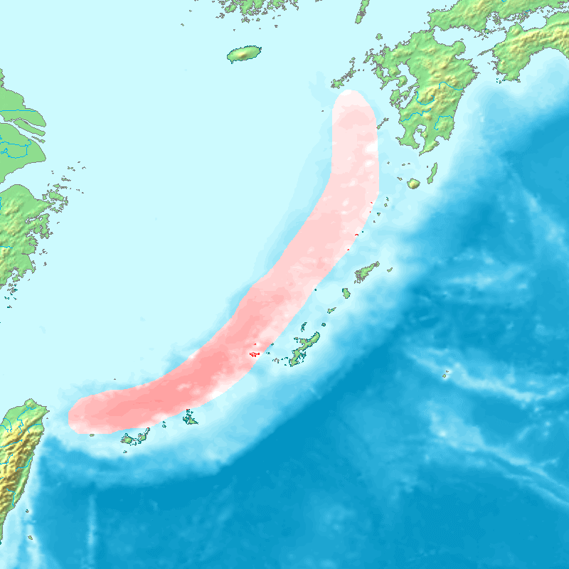 Map of the Okiniwa Trough (a trough in north of Ryukyu Islands). ■ : Okinawa Trough